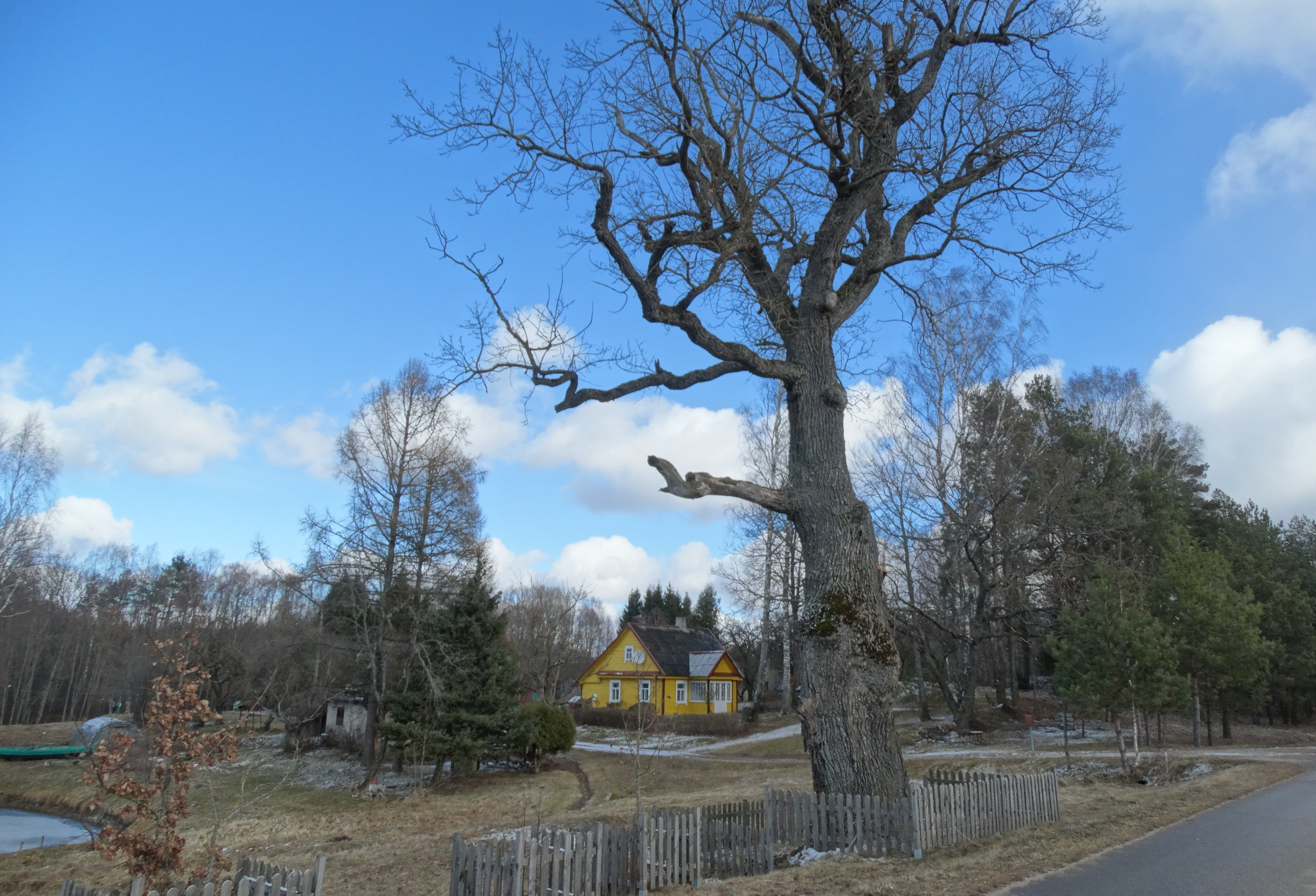 Oak (first) in Mukuliai, Zarasai district, Lithuania